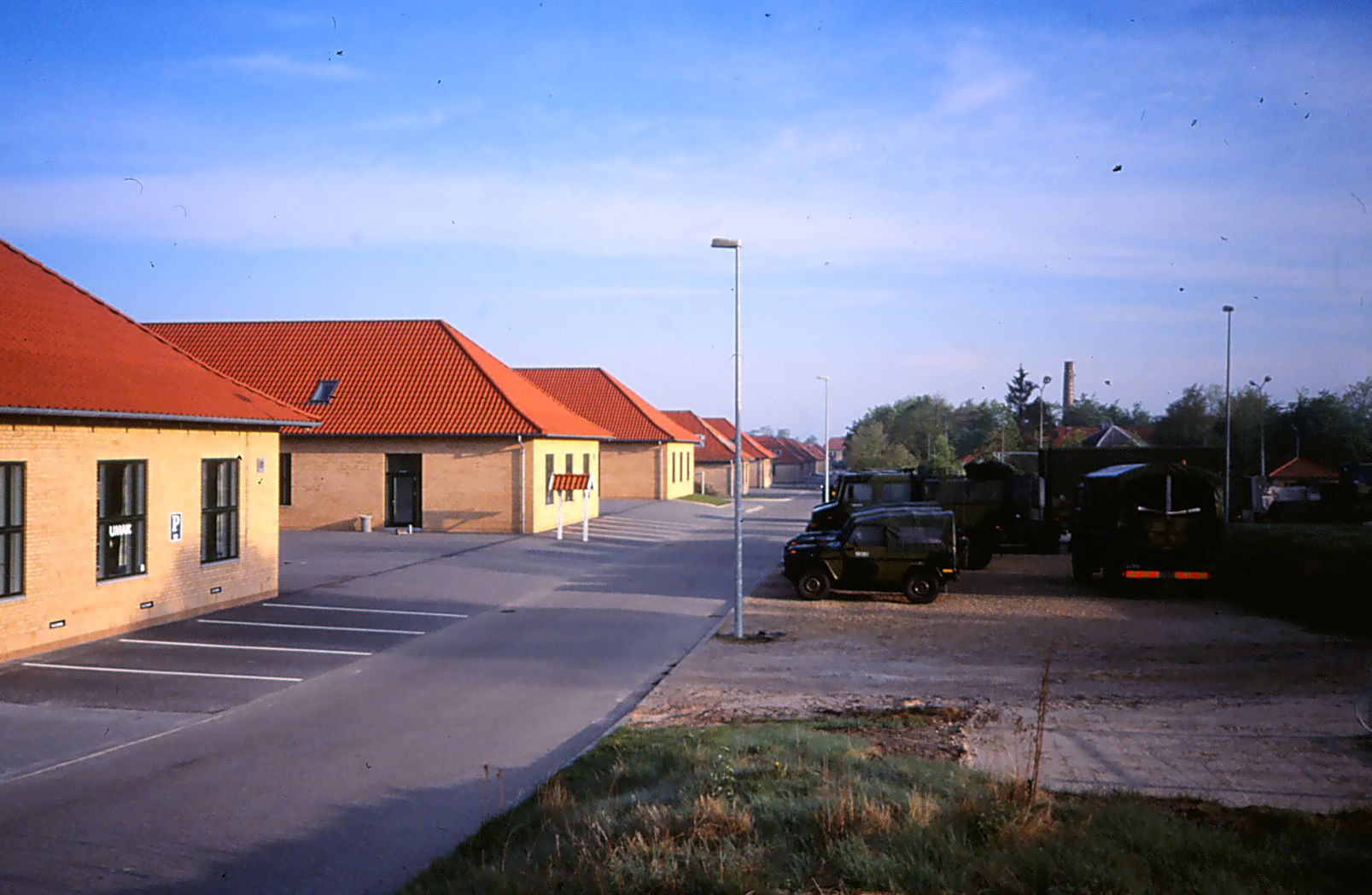 The "Varde Kaserne" Barracks in Varde, Denmark. May 12, 2006.